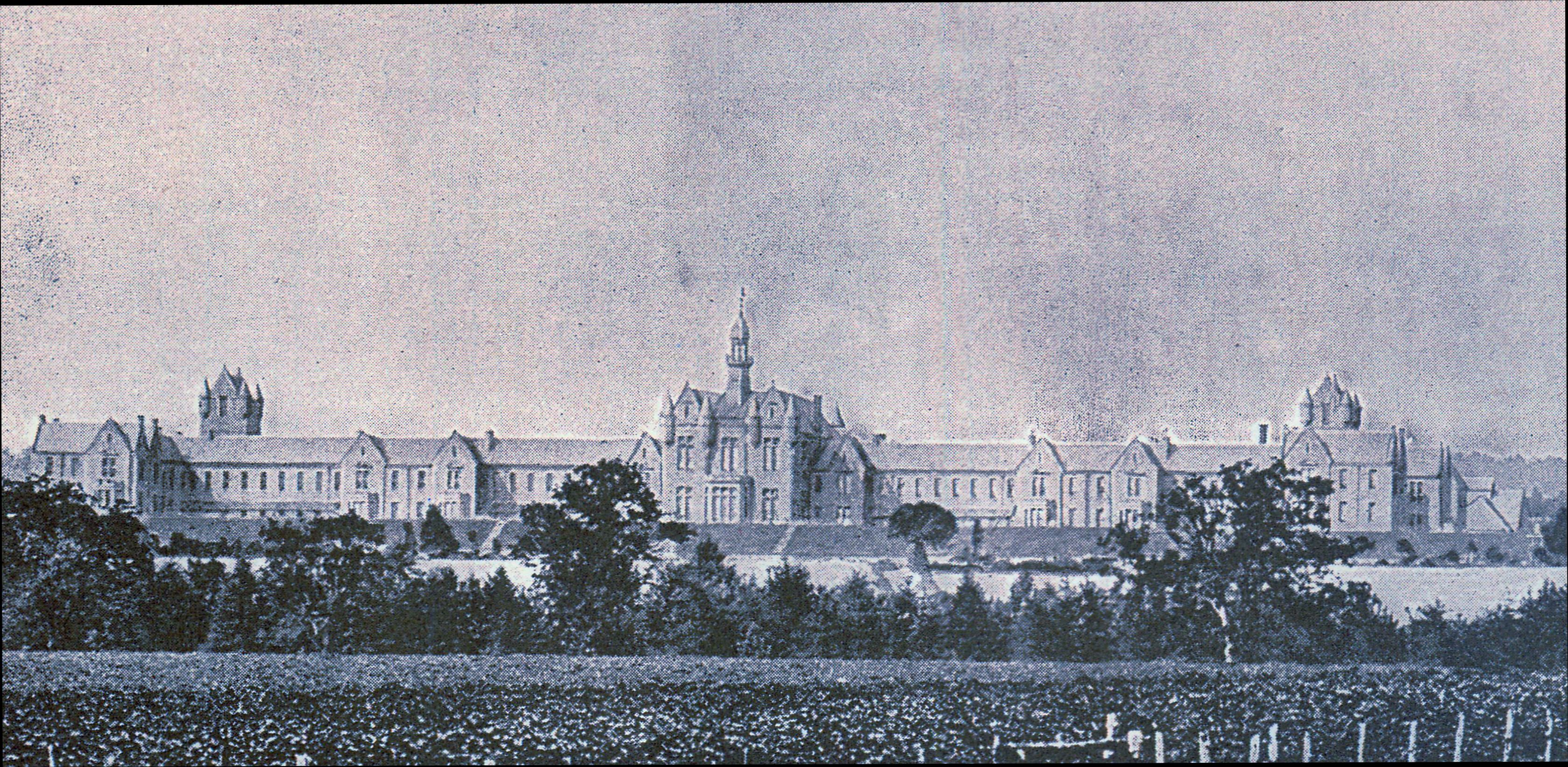 Westgreen Asylum, Liff, Dundee, Scotland in 1897